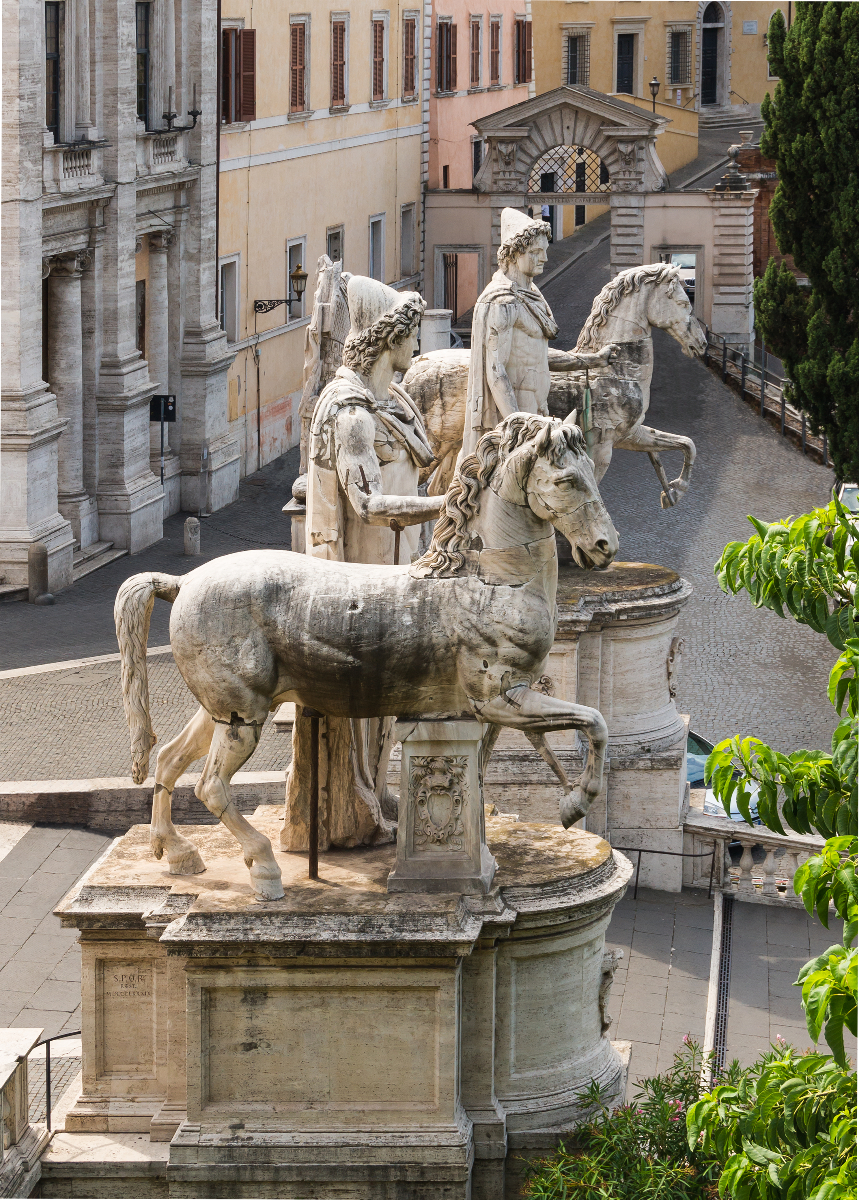 Castor & Pollux, the Dioscures, Capitole, Rome, Italy.